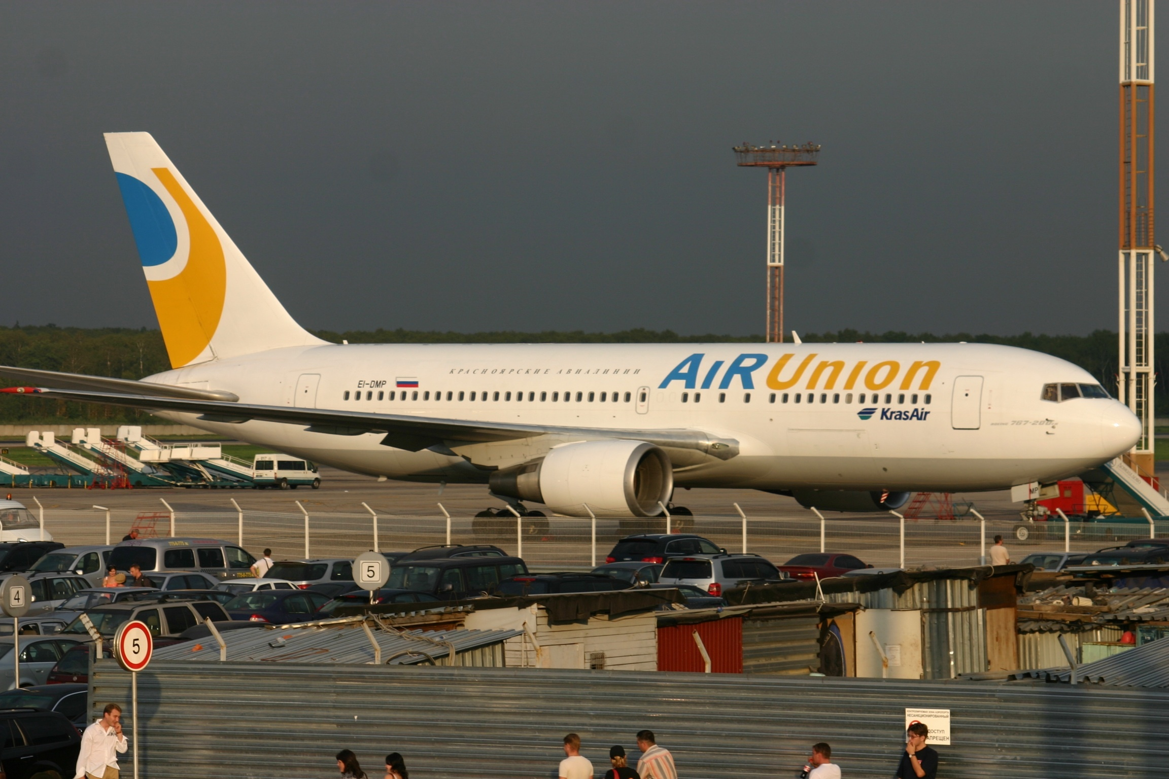 At Moscow Domodedovo